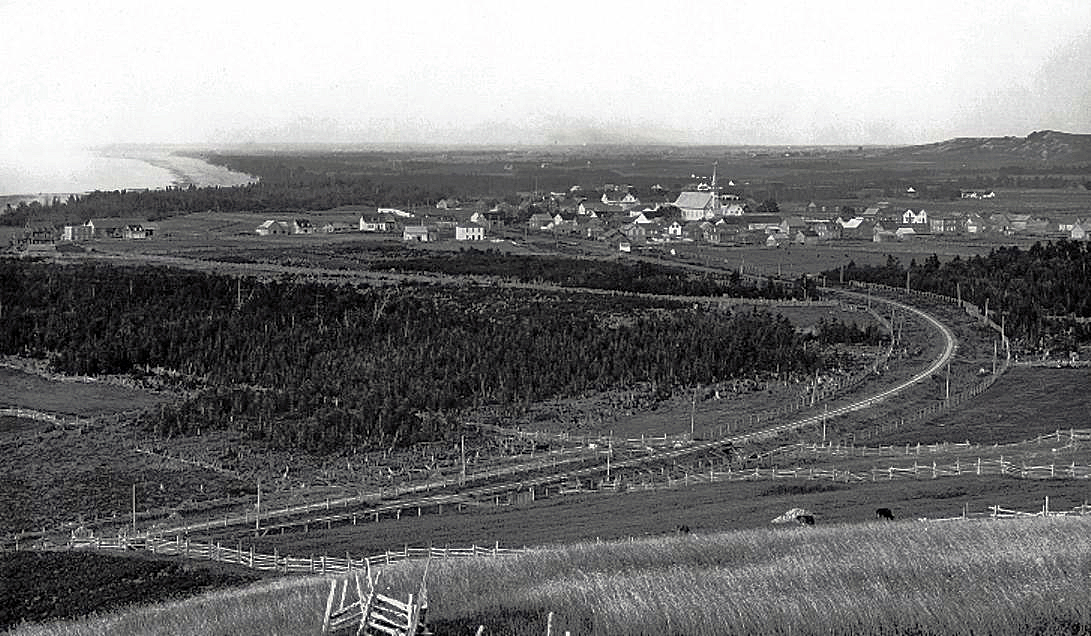 Photograph, St. Jerome, Lake St. John, QC, about 1903, Wm. Notman & Son, Silver salts on glass - Gelatin dry plate process - 20 x 25 cm